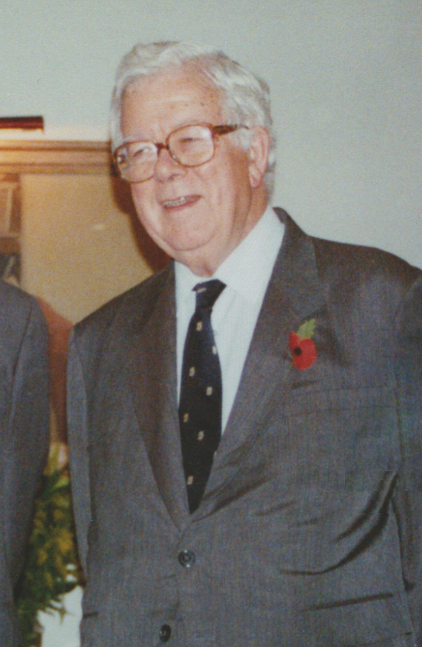 Depicted person: Geoffrey Howe – British Conservative politician This is a retouched picture, which means that it has been digitally altered from its original version. Modifications: suit retouched. Modifications made by PawełMM. The original can be found here: 20200606153350%21Geoffrey_Howe.jpg.